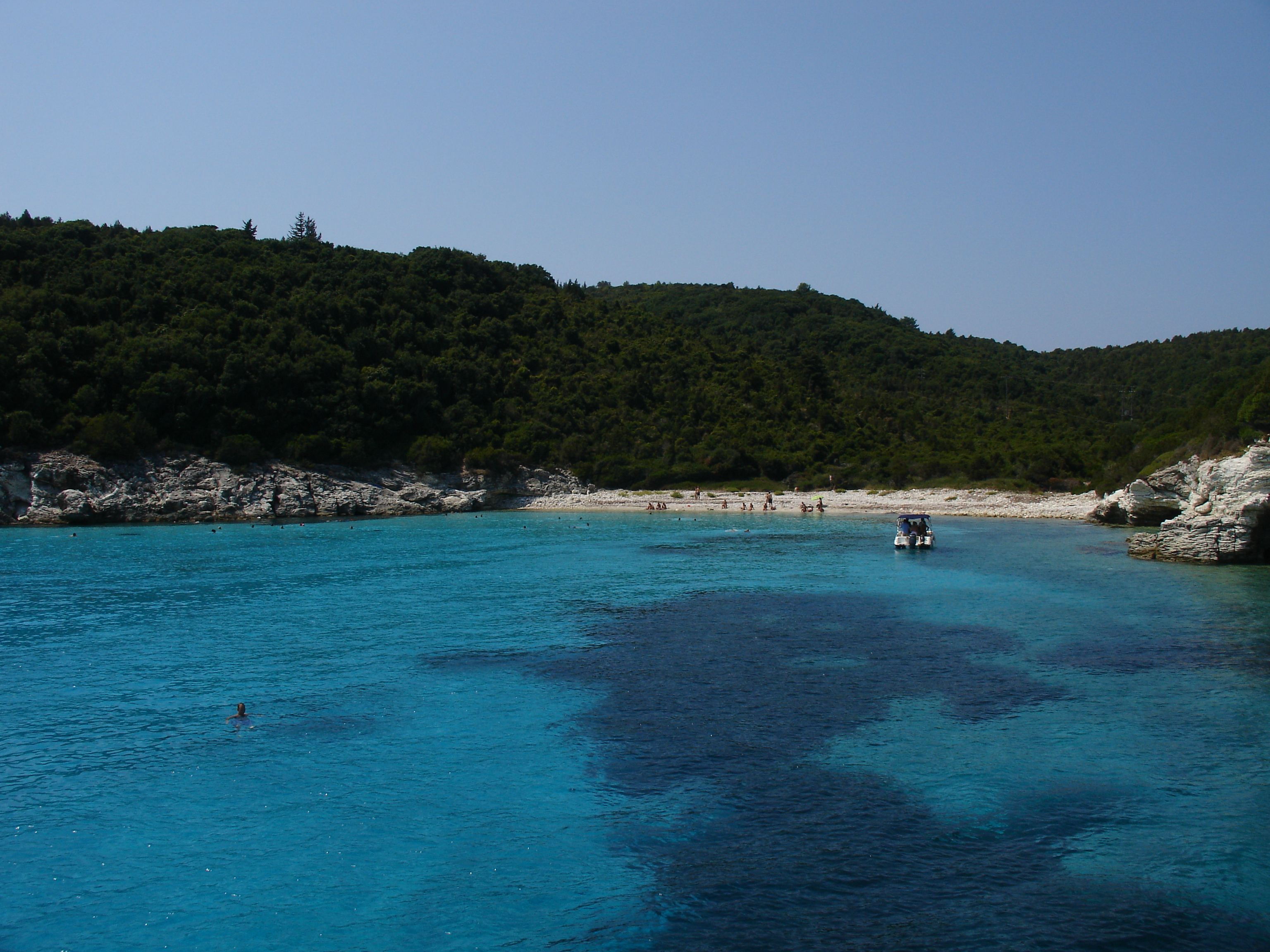 This is a photography of Natura 2000 protected area with ID GR2230004